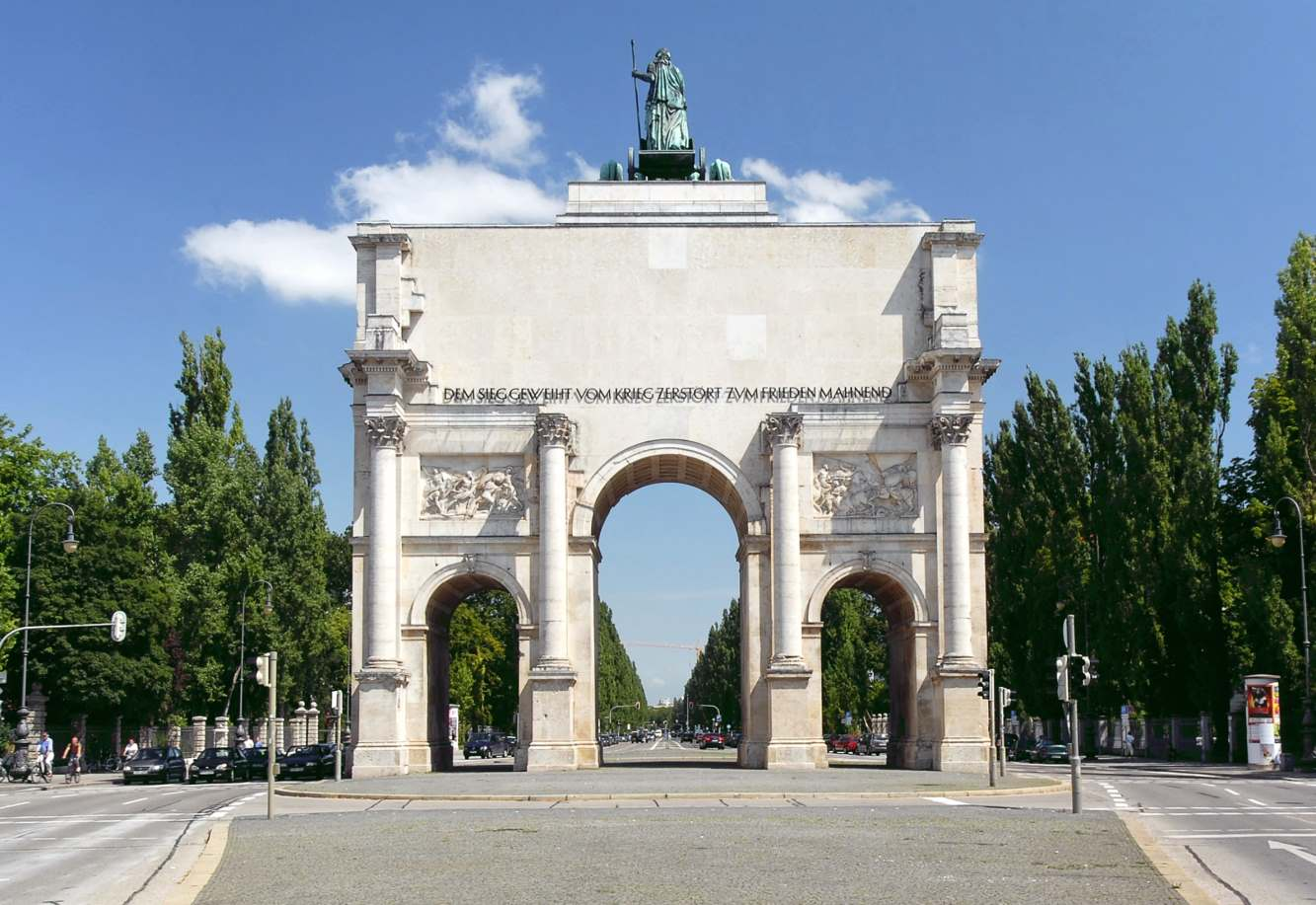 Siegestor (city side) in Munich